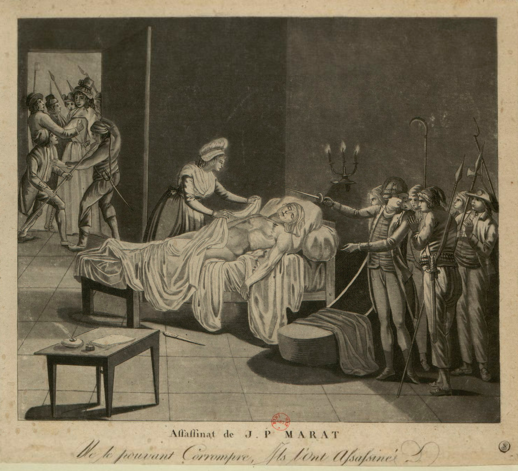 Assassination of Marat. Engraving 1793.